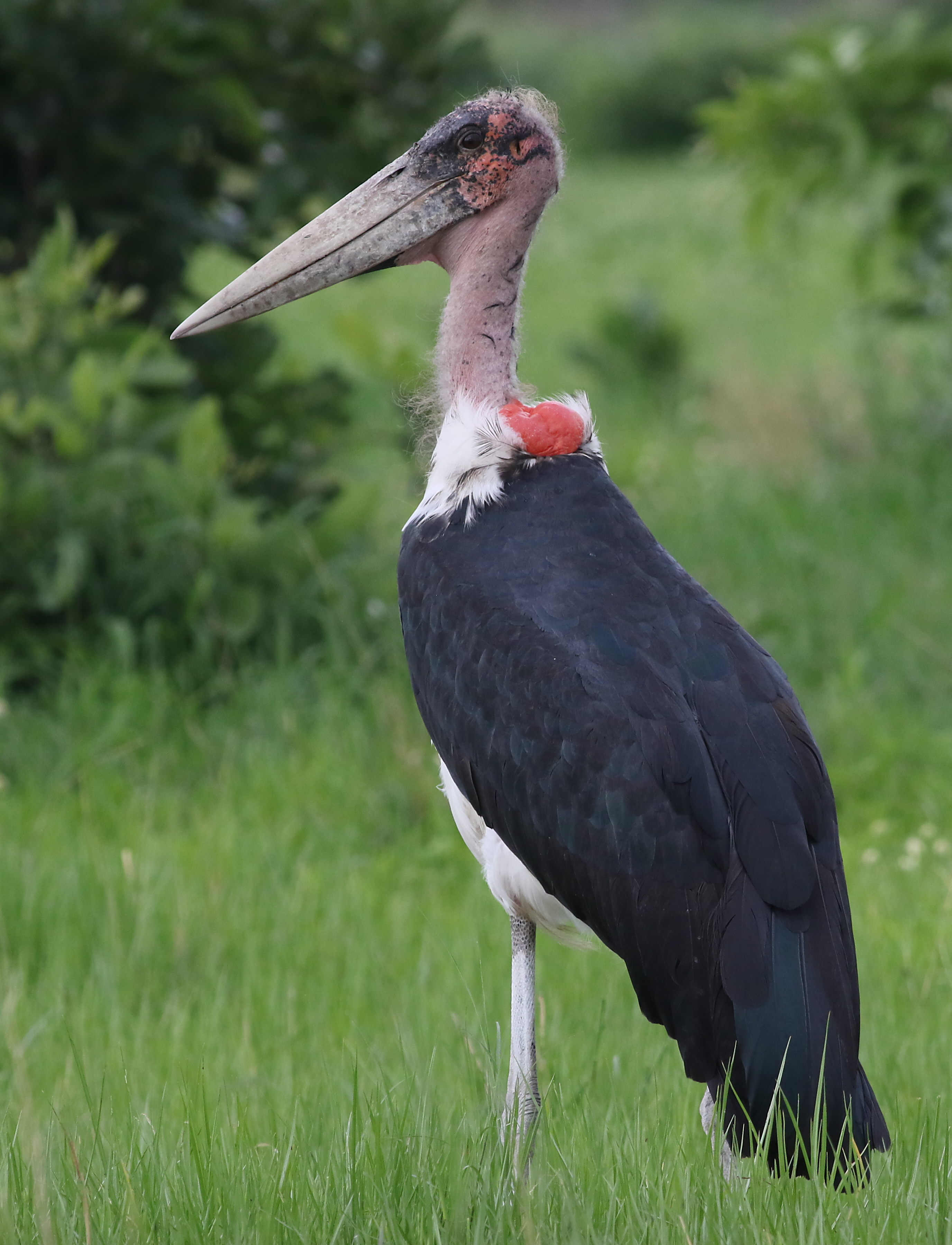 Marabou Stork, Leptoptilos crumeniferus, at the aptly named Marabou Pan, Savuti, Chobe National Park, Botswana